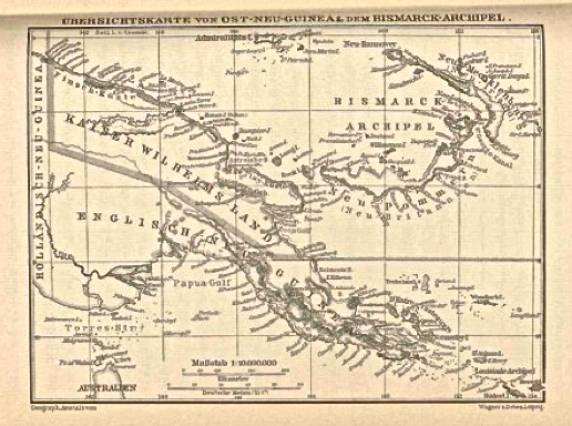 Map of Kaiser Wilhelms-Land and Ost Neu Guinea, from a 1884 - 1885 book by Otto Finsch, accessed via the World Digital Library }